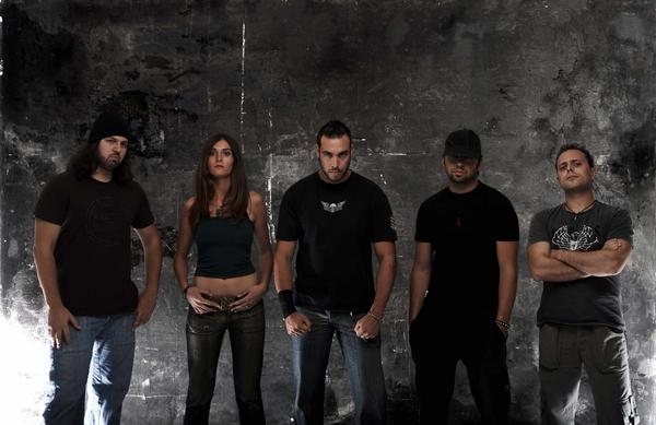 Odes Of Ecstasy 2007